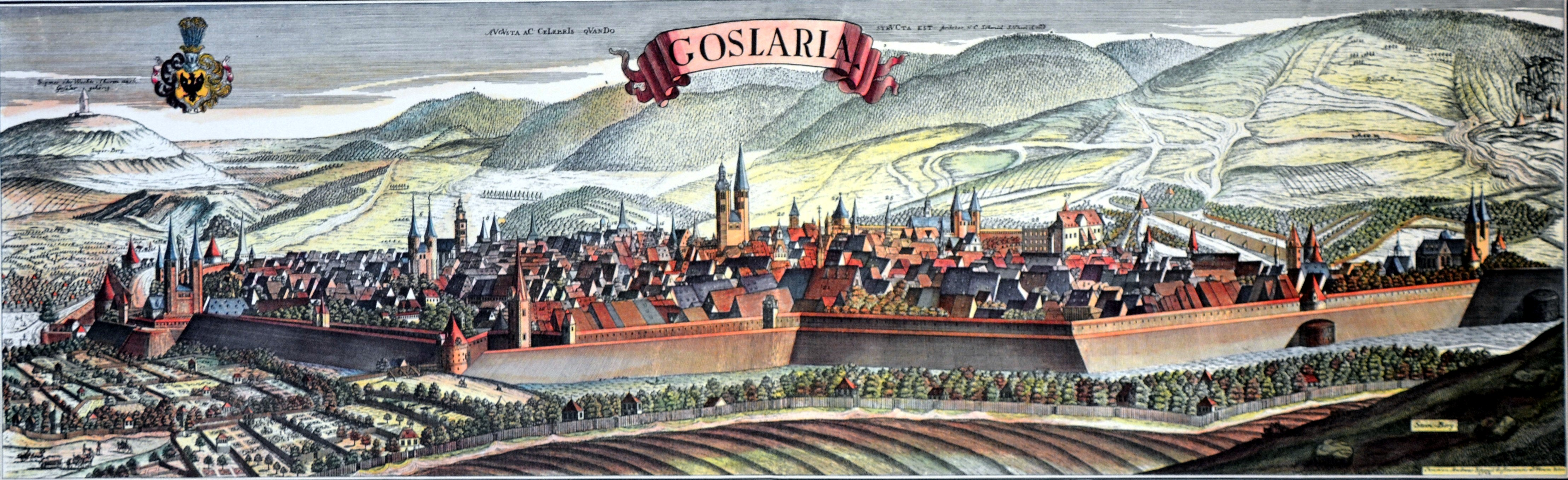 Goslar 1732 by CCkristioan Andreas Schmid